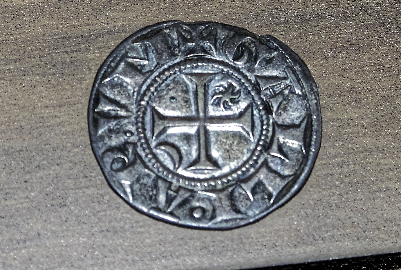 Fort lyonnais, monnaie anonyme frappée pour le compte de l'église de Lyon, archevêque et chapitre de chanoines entre le 11 et le 14e siècle. Conservé au médailler du Musée des beaux-arts de Lyon ; salle publique.